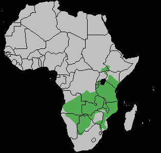 Taurotragus oryx distribution